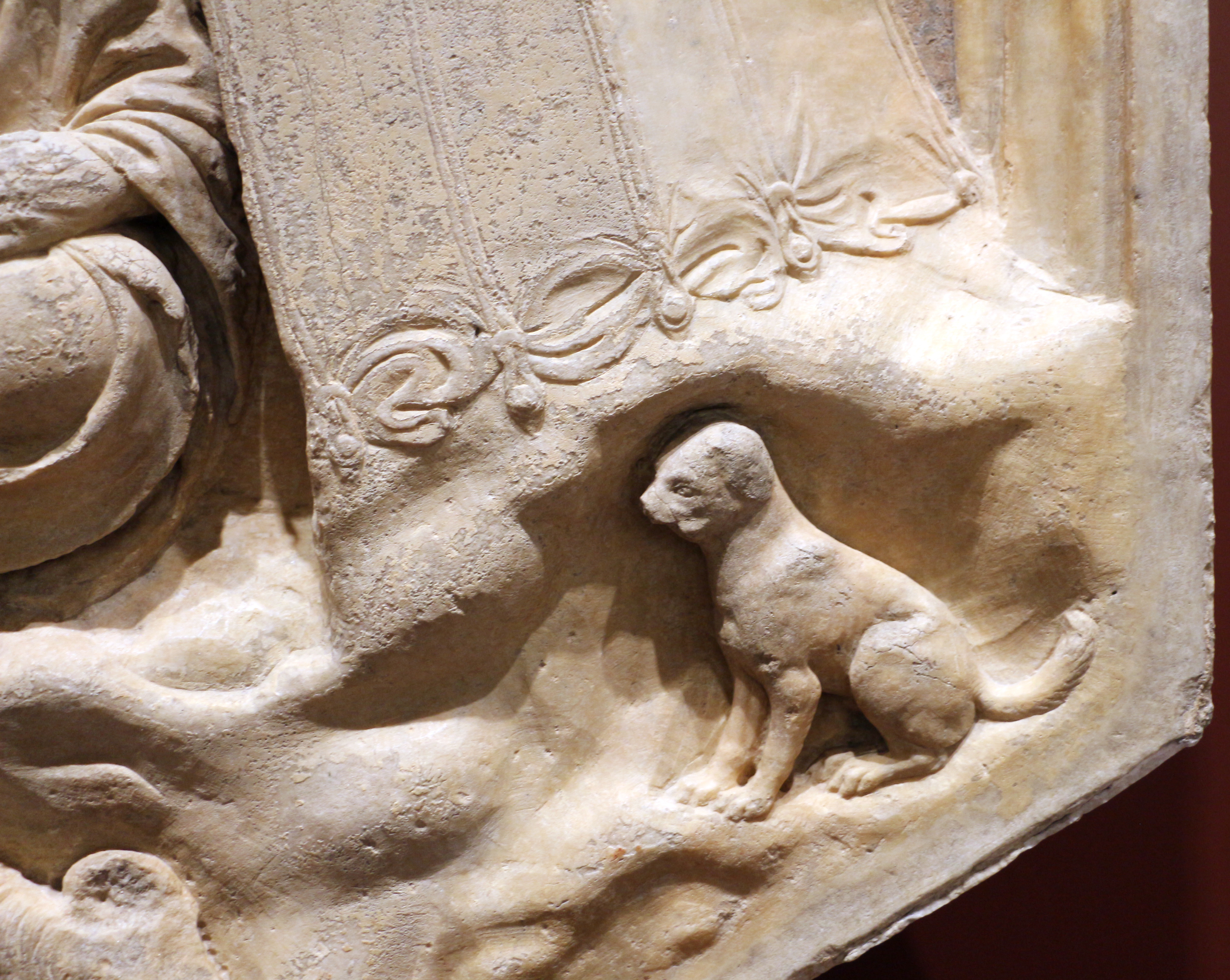 Reliefs of the Giotto's Belltower